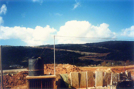 ​העלייה לשמיס אל ערקוב. מבט ממוצב עיישיה ברצועת הביטחון בלבנון (התמונה צולמה על ידי יונתן)